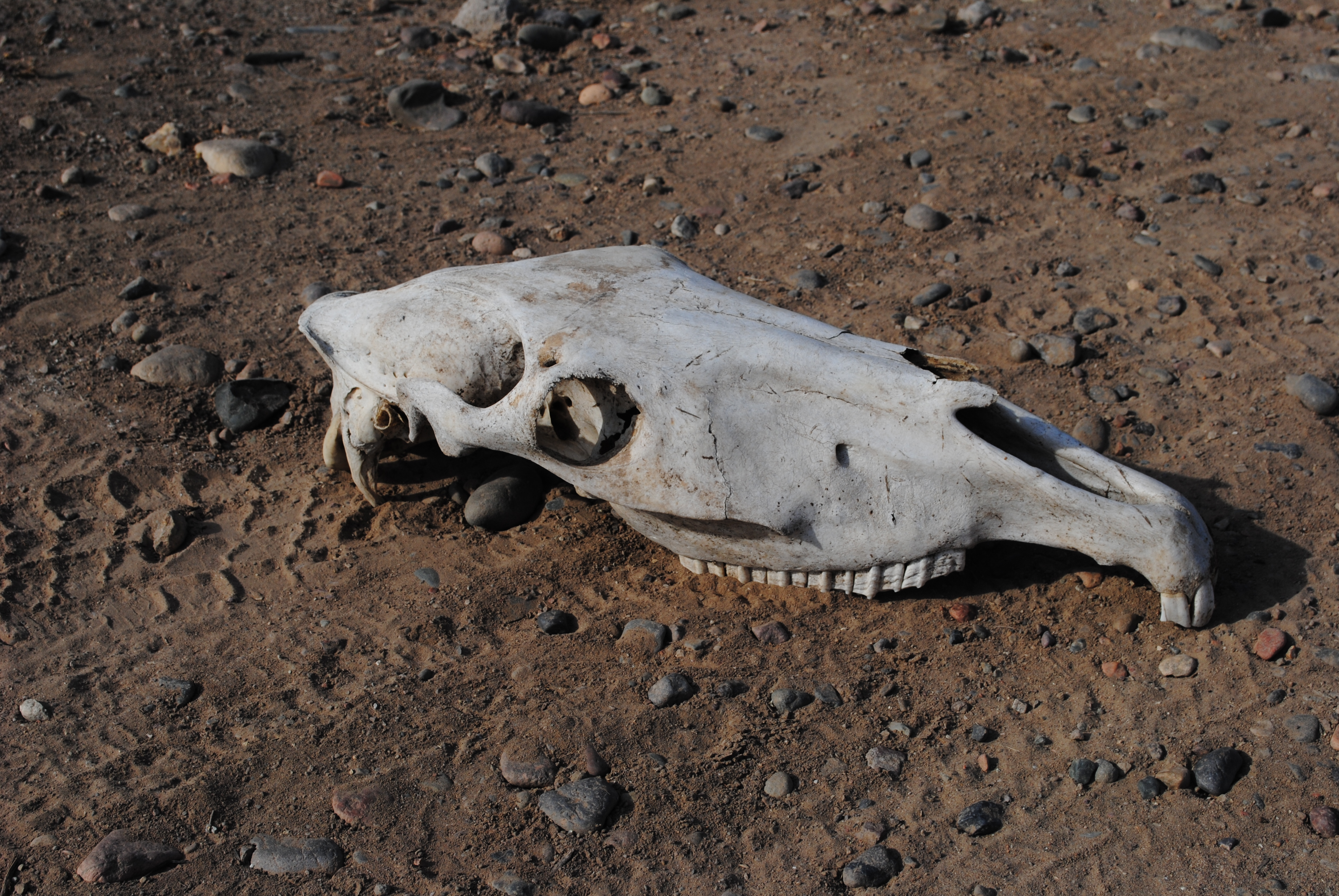 Horseskull near Rio Elqui Place: Chile, Region de Coquimbo; La Serena